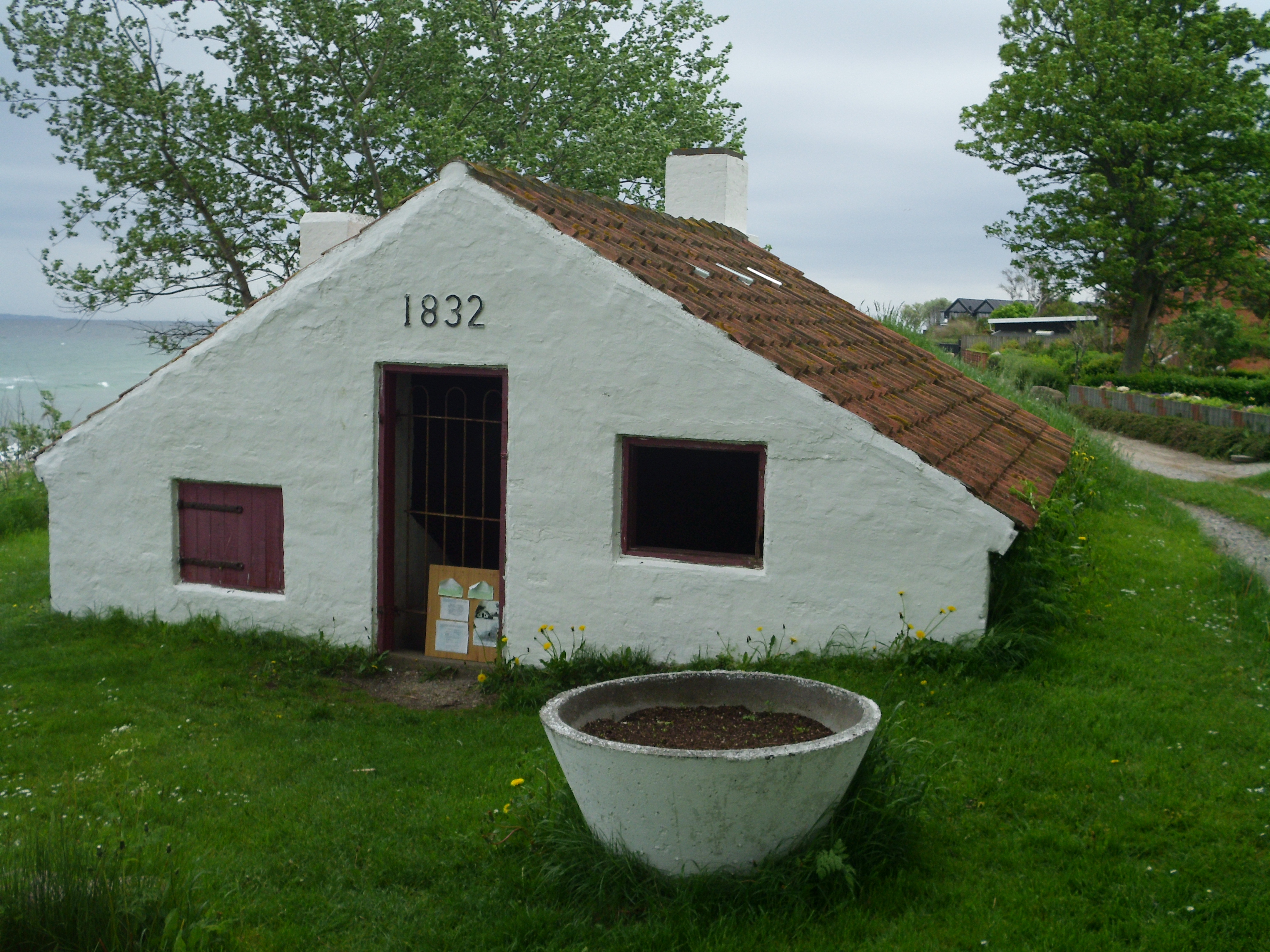 Historic lime kiln outside Ballen on the island of Samsø in Denmark